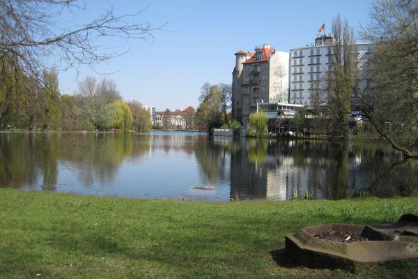 Lietzensee (Lake Lietzen) Berlin Charlottenburg